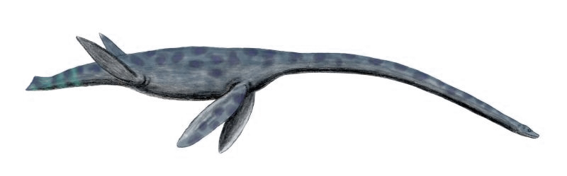 Styxosaurus snowi, a plesiosaur from the Late Cretaceous of North America